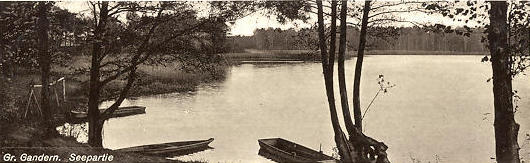 Lake of Gądków Wielki (Groß Gandern) (Jezioro Wielkie, Großer See)